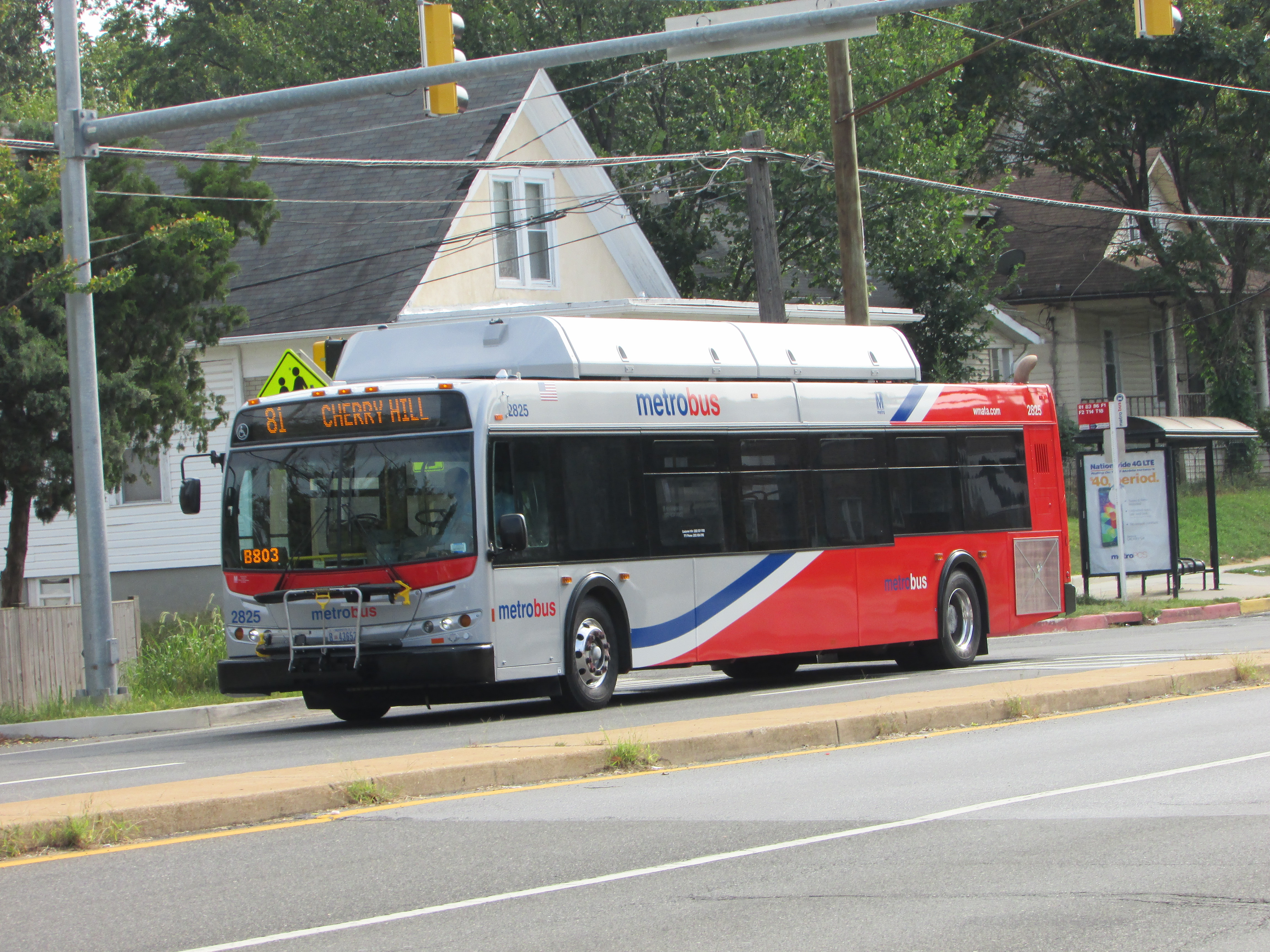 Freshly rehabbed in the new Local Scheme